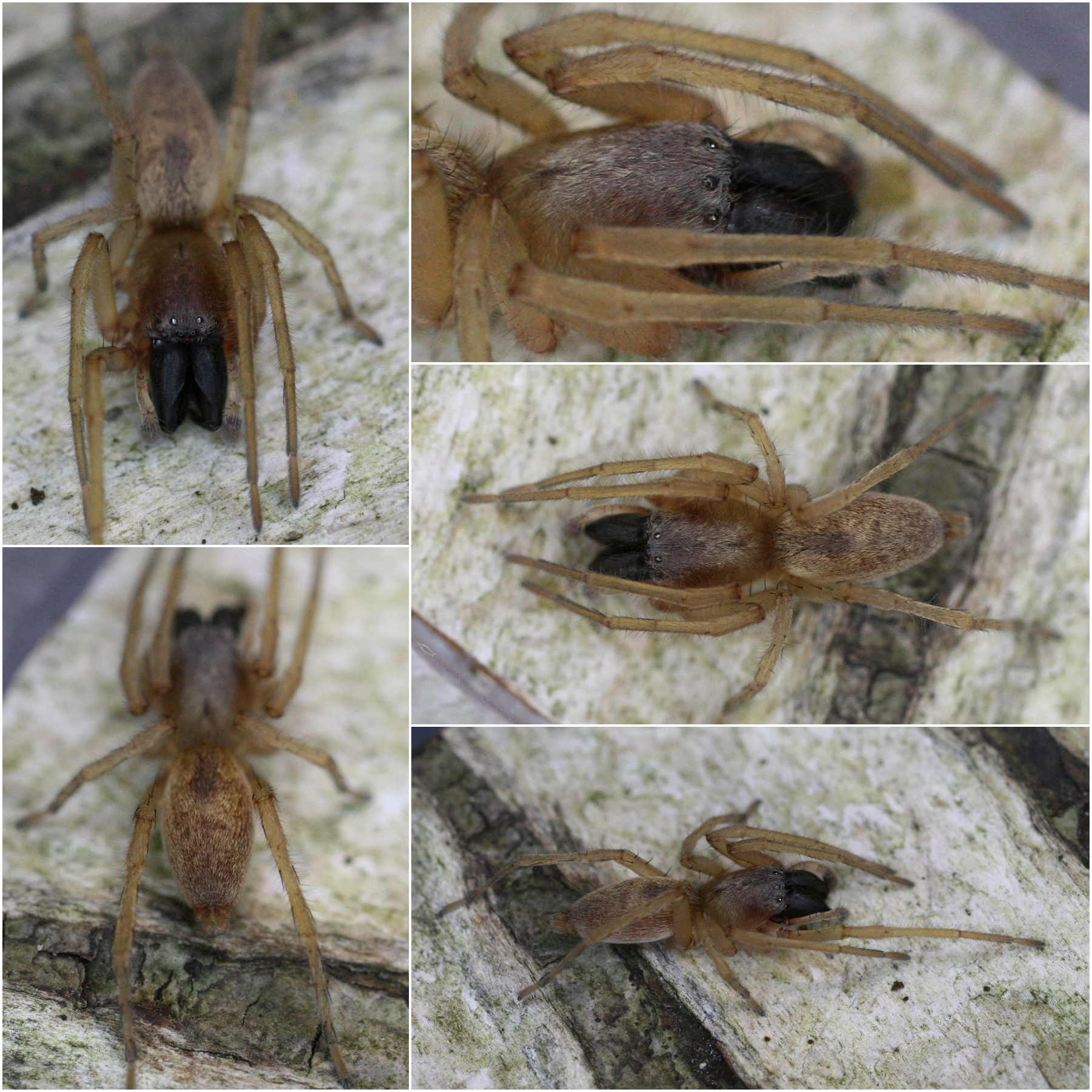 Clubiona phragmitis, found at the Riverside Road Watercress Beds local nature reserve in St. Albans, Hertfordshire, 4th November 2013.